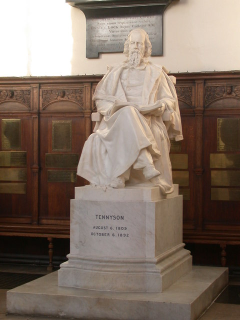 Statue of Tennyson, Trinity College Chapel Alfred Tennyson, later 1st Baron Tennyson (1809 – 1892) came up to Trinity in 1828, but left without taking his degree when his father died.